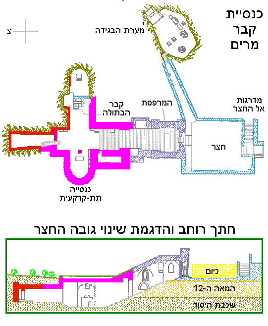 Plan of Mary's Tomb, in Jerusalem